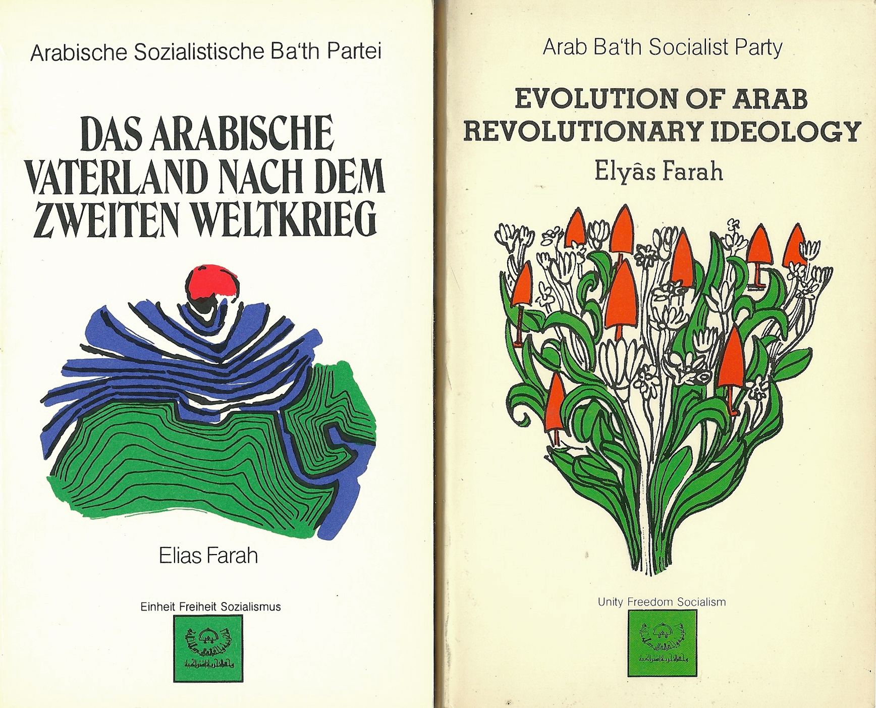 Frontcovers of two books written by Elias/Elyas Farah about the Evolution of the revolutionary Ideology of the Arab Socialist Ba'th party (Arab Ba'th Socialist Party): 1. The Arab Homeland after World War II (1977), 2. Evolution of Arab Revolutionary Ideology (1978)